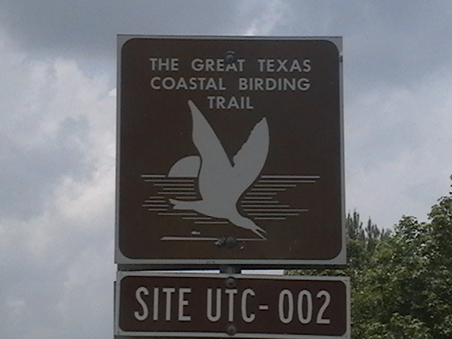 A picture of the roadsign for the designation of the Wikipedia:Great Texas Coastal Birding Trail located in Newton County on Wikipedia:U.S. Route 190 near the Wikipedia:Sabine River (Texas, Louisiana)